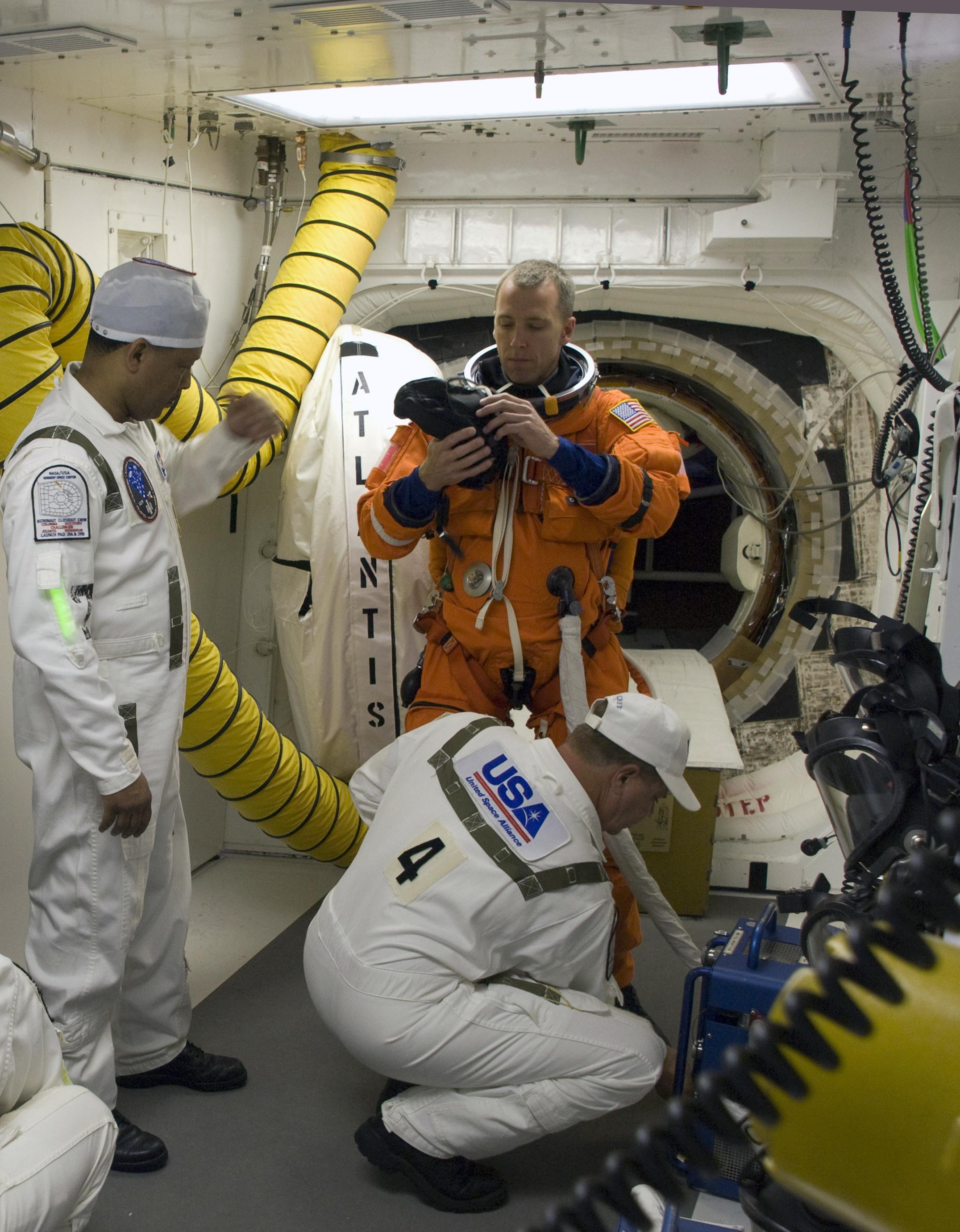 white room at Kennedy Space Center LC39